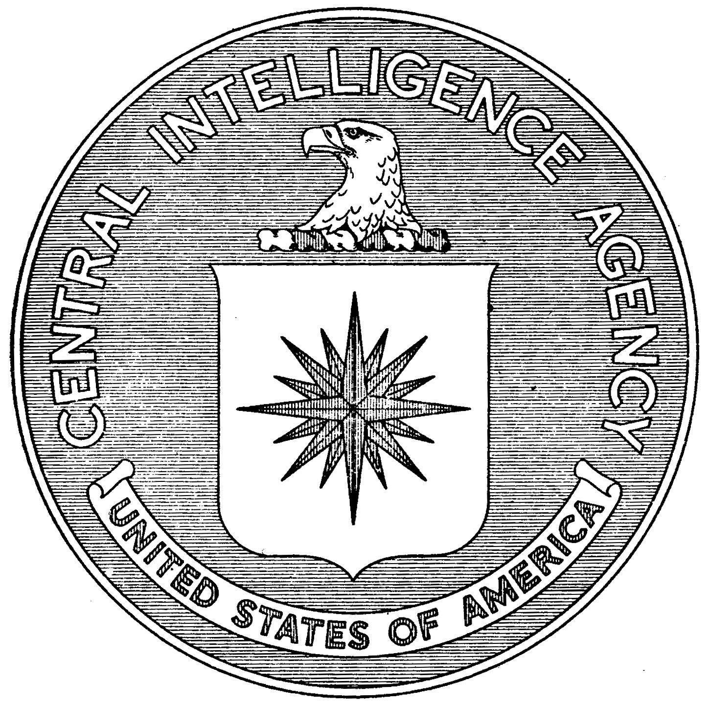 Illustration of the seal of the Central Intelligence Agency, from Executive Order 10111 (which defined the seal). The design is described there as: SHIELD: Argent, a compass rose of sixteen points gules. CREST: On a wreath argent and gules an American bald eagle's head erased proper. Below the shield on a gold color scroll the inscription "United States of America" in red letters, and encircling the shield and crest at the top the inscription "Central Intelligence Agency" in white letters. All on a circular blue background with a narrow gold edge.